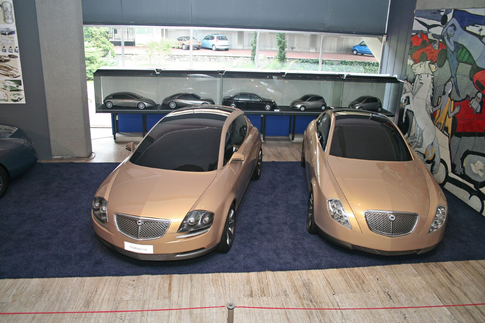 Concept Lancia "Stilnovo" and "Granturismo Stilnovo" at Turin Automobile Museum (italy)